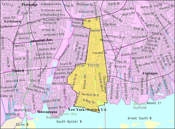 U.S. Census 2000 reference map for East Massapequa, New York